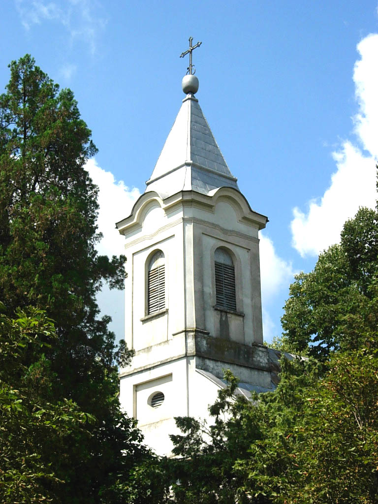 The Birth of the Blessed Virgin Mary Roman Catholic Church in Sanad, Odžaci, Vojvodina, Serbia.